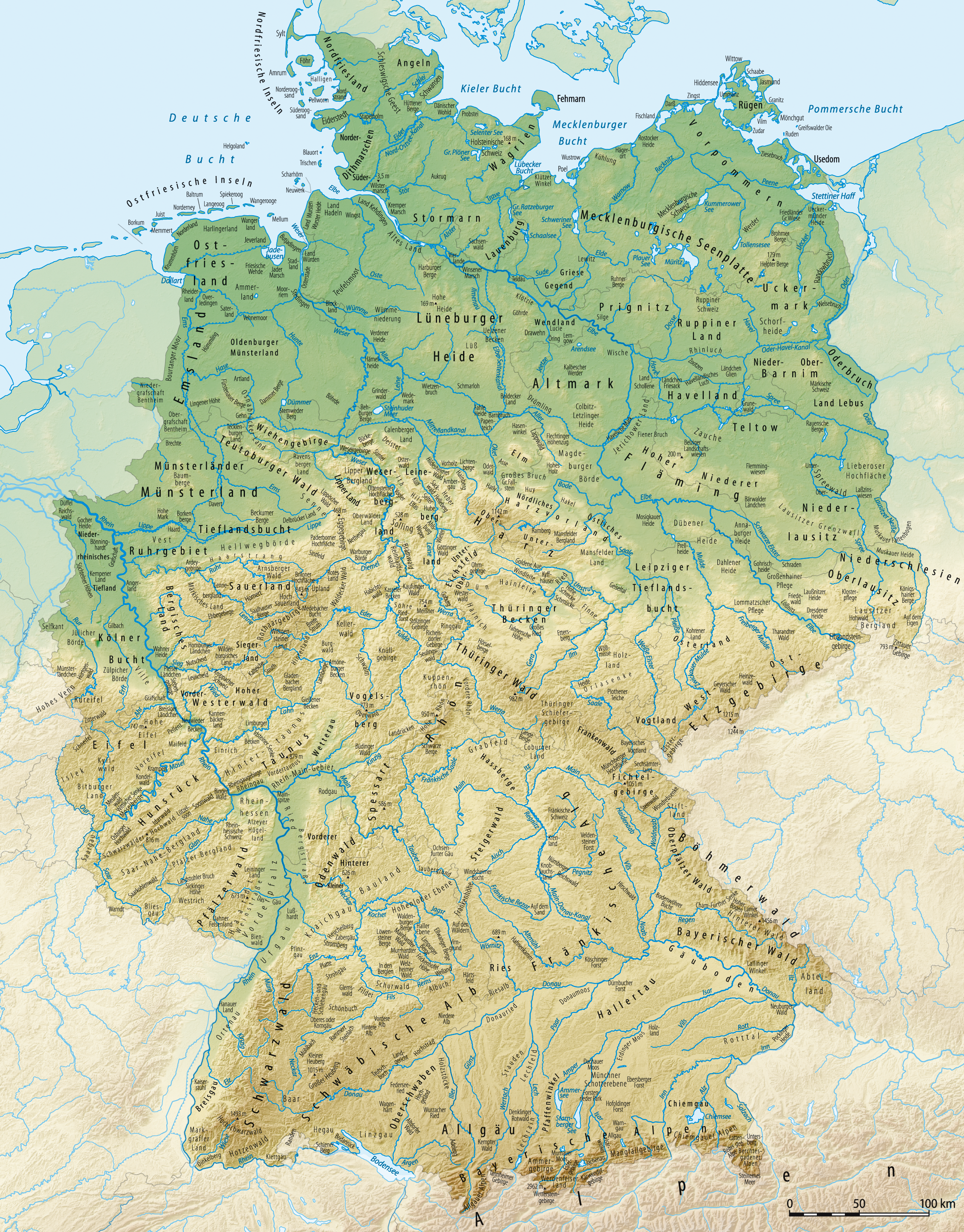 Map of the landscapes of Germany